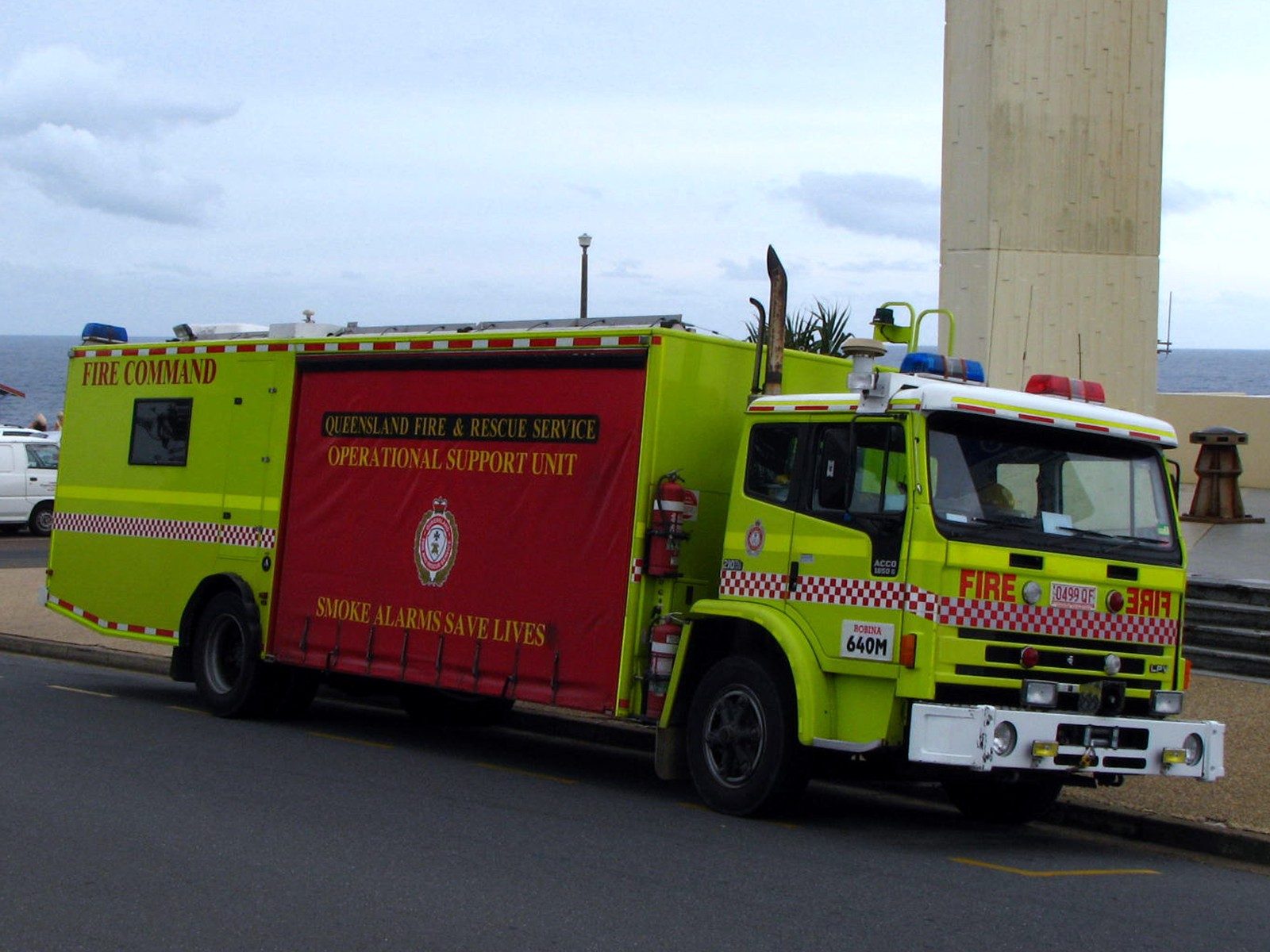 QLD Fire & Rescue Ops. Sup. Unit/Fire Command Post